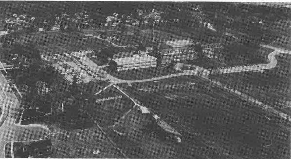 Aerial photo taken in 1984 of Benet Academy in Lisle, Illinois, United States.